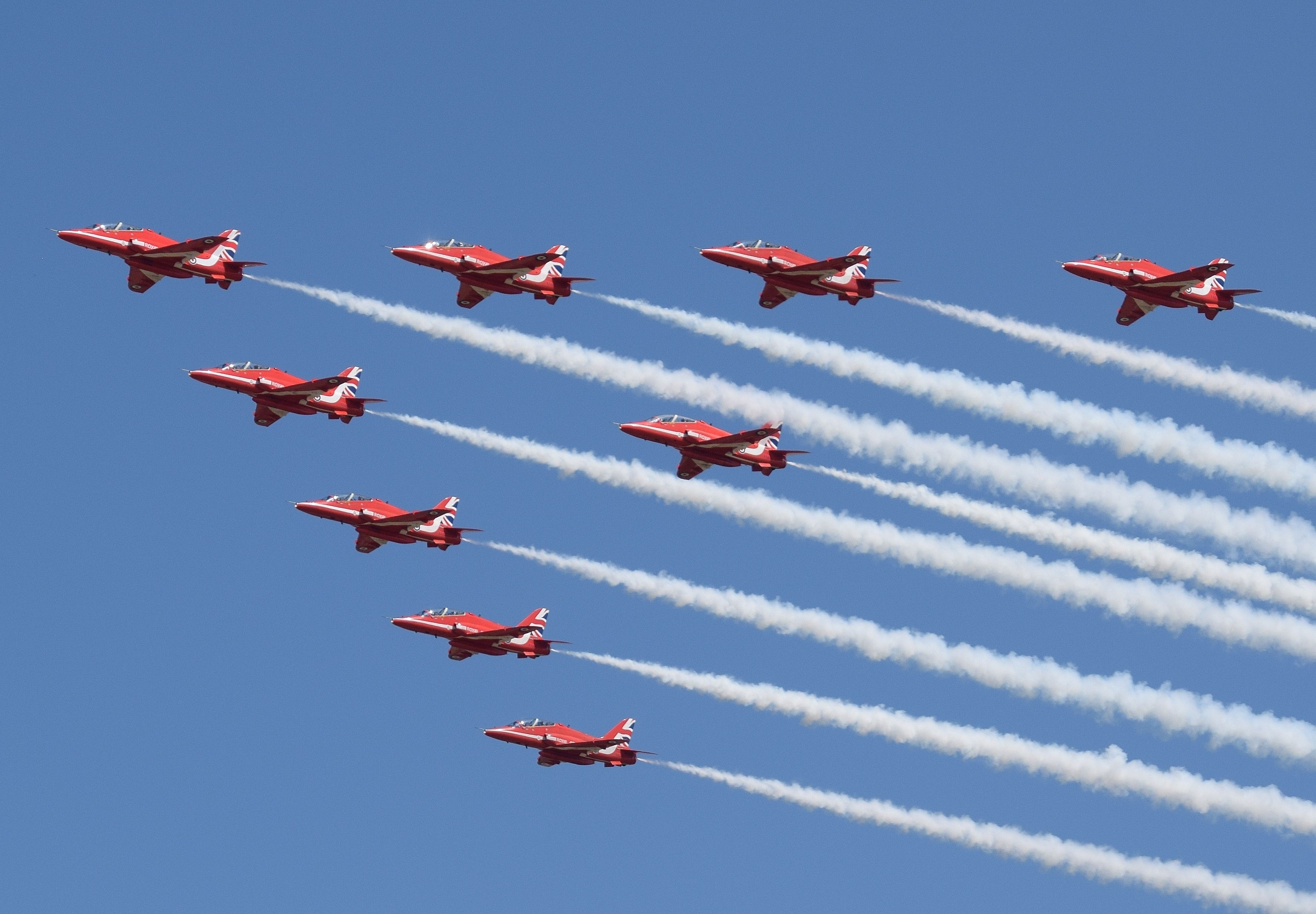 Nine BAE Hawks of the UK Red Arrows at the 2018 Royal International Air Tattoo, RAF Fairford, England.